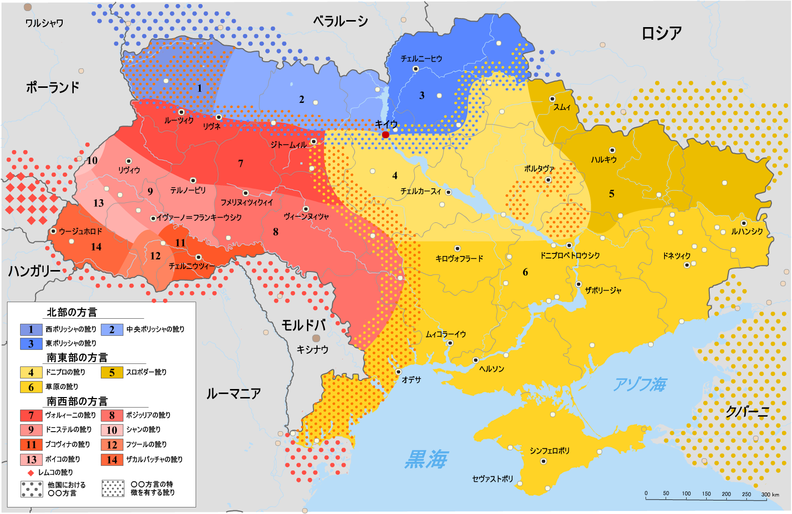 Map of Ukrainian dialects